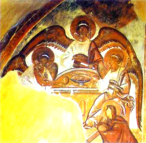 Abraham and Holy Trinity